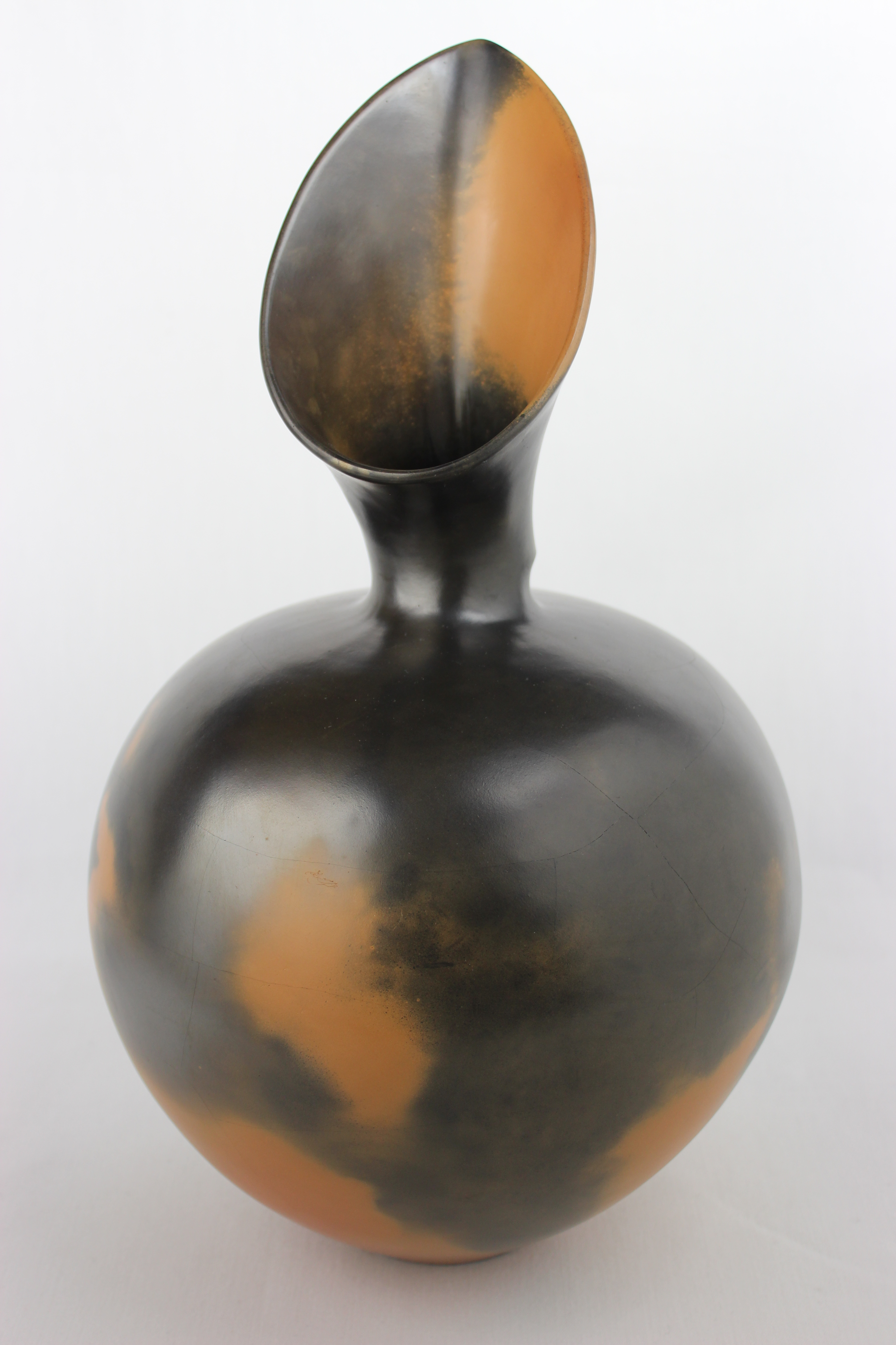 Burnished jar with deep orange and black body. Open flared mouth off-set with ridge. Reduction fired. From the W.A. Ismay Studio Ceramics Collection at York Art Gallery